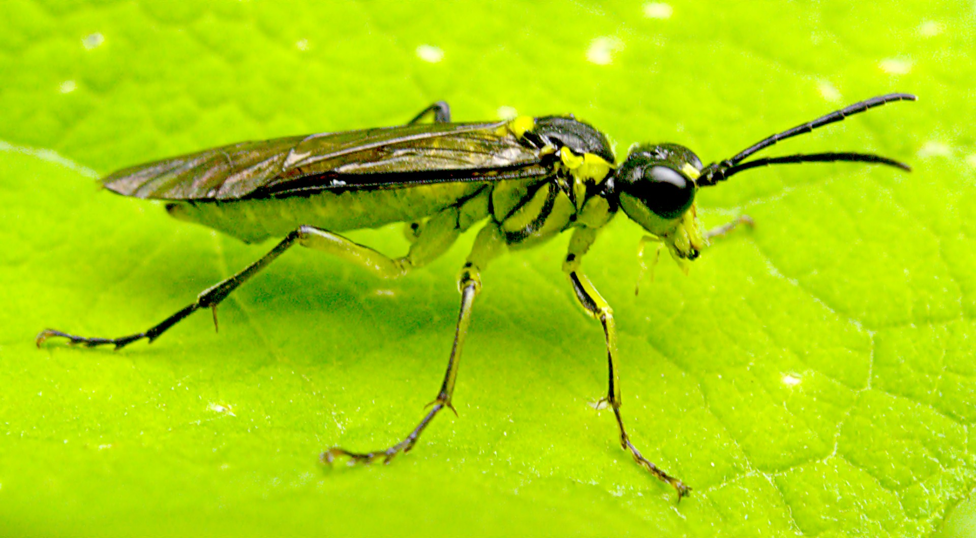 Name: Tenthredo mesomela. Family: Tenthredinidae. Location: Münster, NRW, Germany